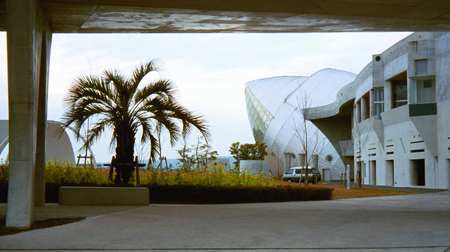 A futuristic senior center in Ibusuki, Japan. Photo by Robert La Ferla.